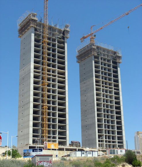 en construcción